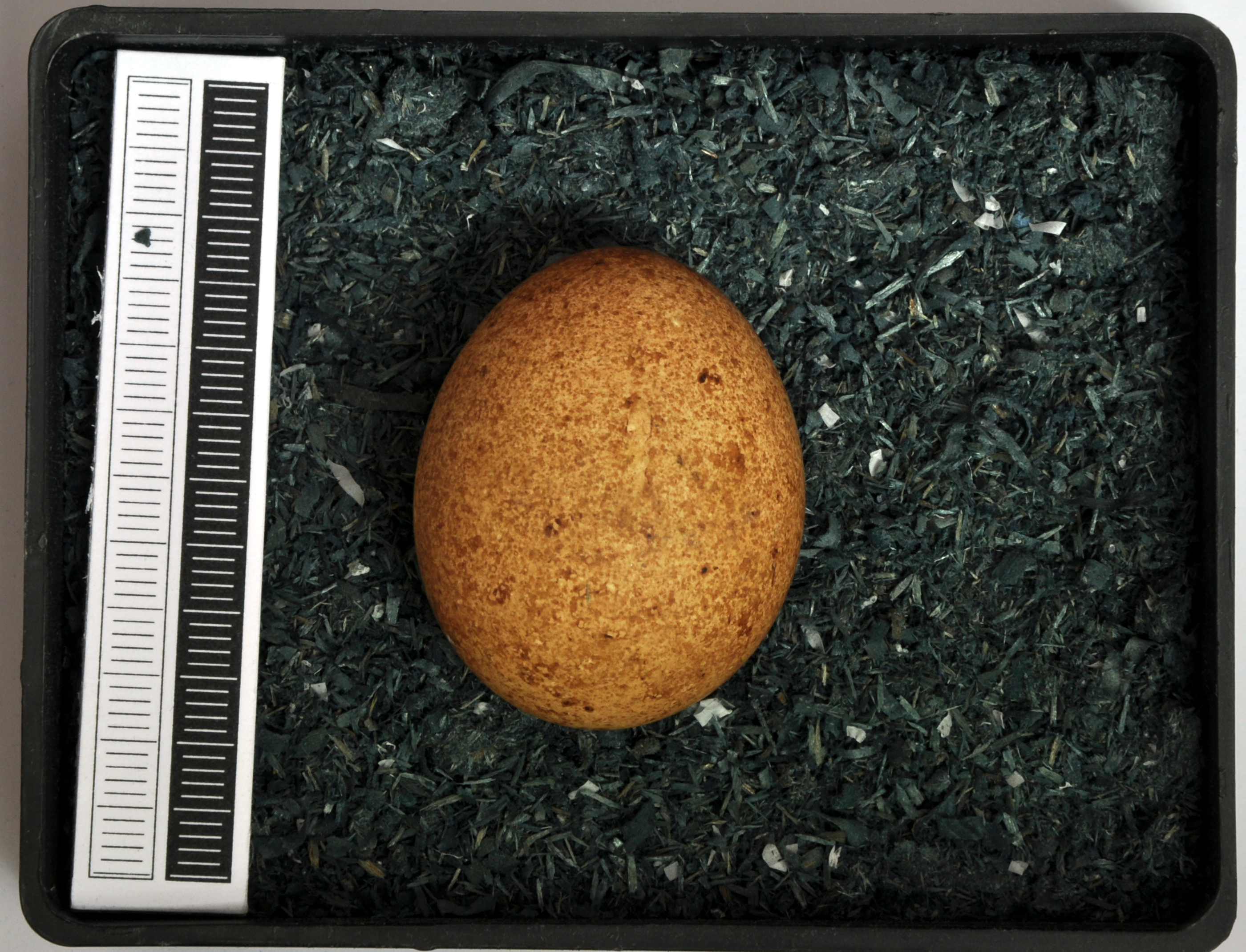 Lesser kestrel Falco naumanni, egg, Coll. Museum Wiesbaden, Origin: Smyrna/Izmir,Turkey, 1972, leg. W. Abelmann